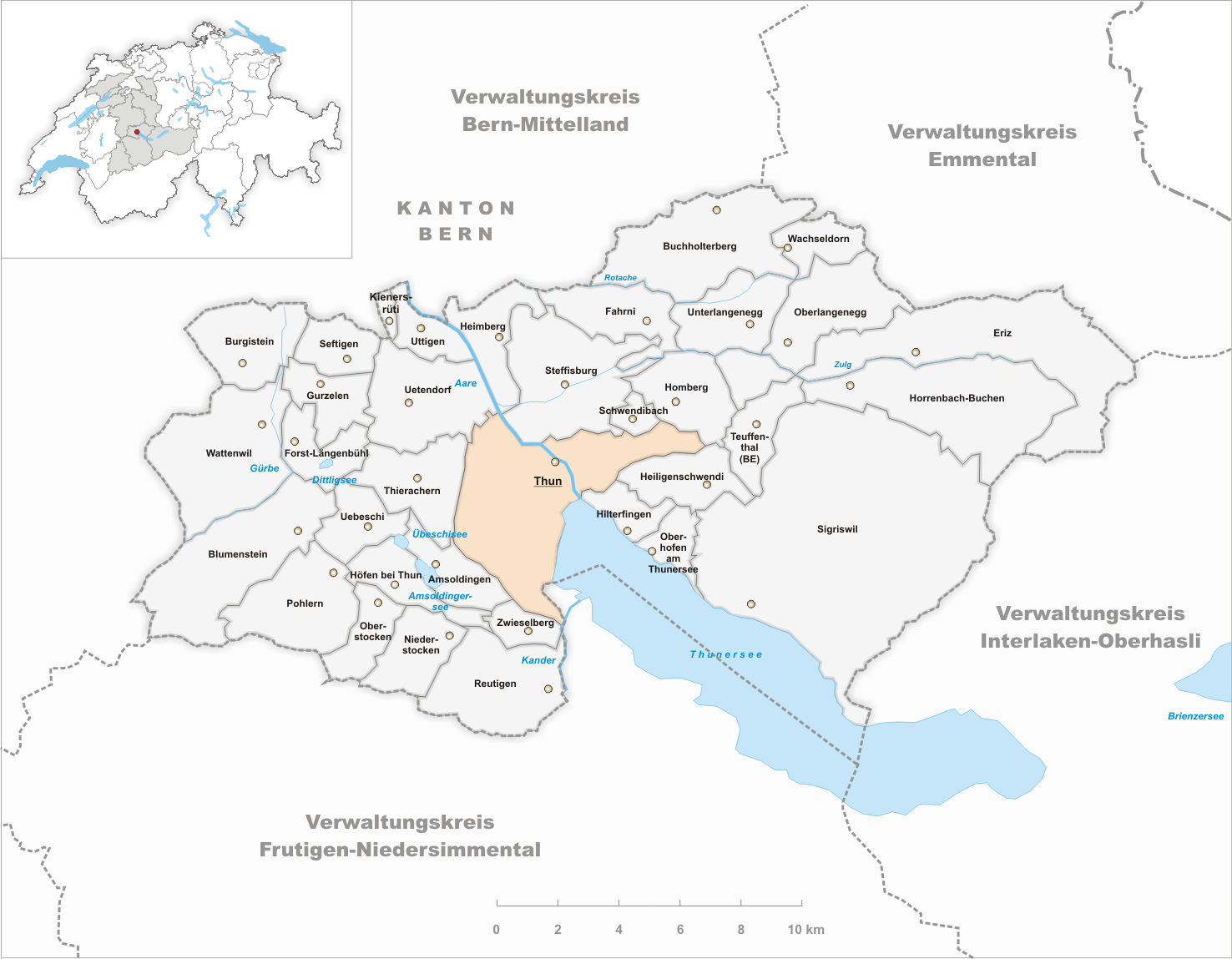 Municipality Thun